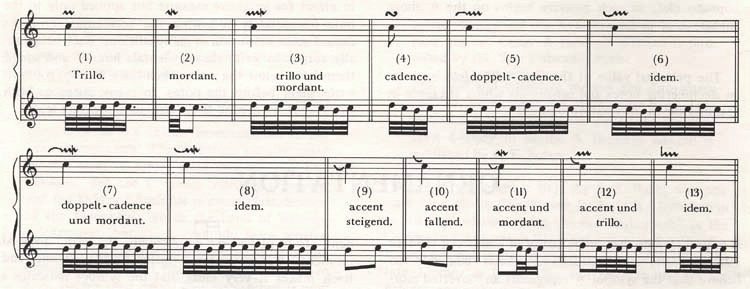 table of ornaments made by Johann Sebastian Bach in the Klavierbüchlein für Wilhelm Friedemann Bach